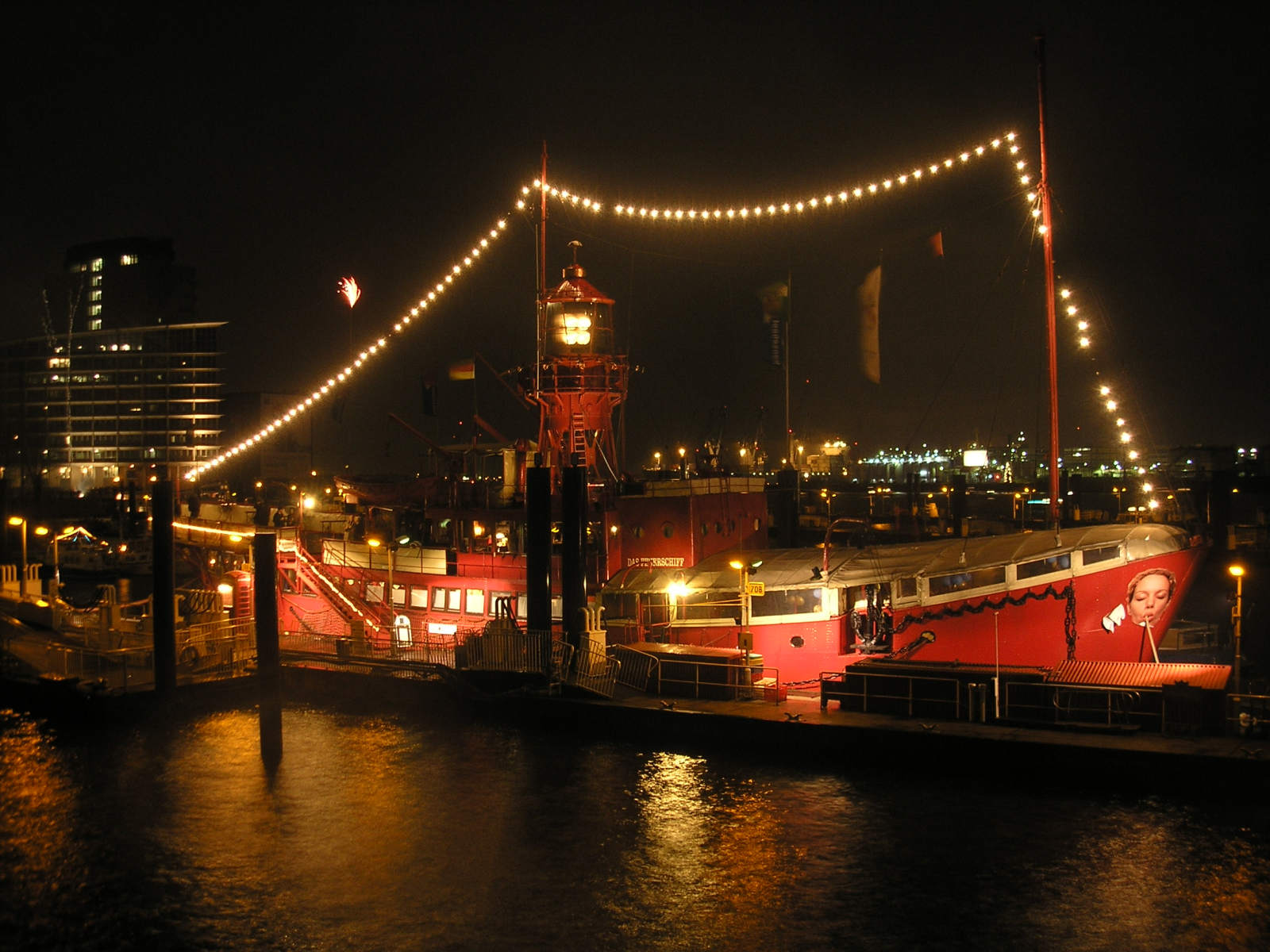 "Das Feuerschiff" or "Trinity House LV13" (Lightvessel 13) - originally a Brittish Lightship, functioning as a museum, hotel, restaurant etcetera in the harbour of Hamburg (Germany). Photos taken during new year celebration on 2007-01-01, hence some show fireworks.Location: City-Sporthafen, Hamburg, GermanyKeywords: fireworks, new year